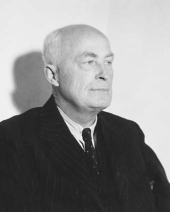 Australian geologist and Antarctic explorer Douglas Mawson in 1945.